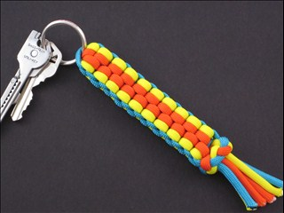 Spectrally Clustered Crown Sinnet in blue/yellow/orange, from .